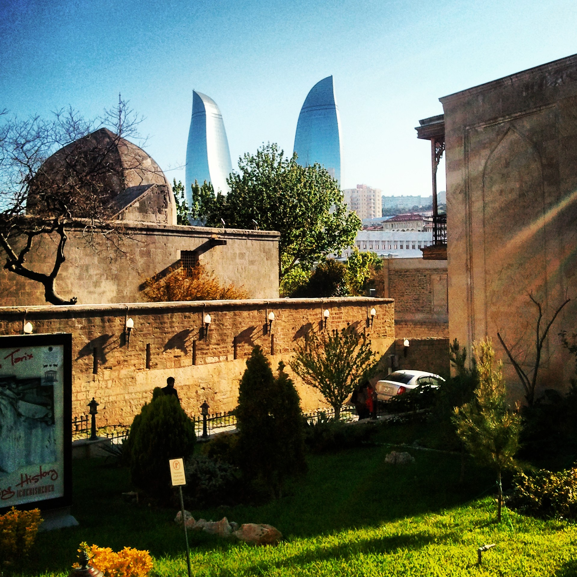 Old City or Inner City (Azerbaijani: İçəri Şəhər) is the historical core of Baku. In December 2000, the Old City of Baku, including the Palace of the Shirvanshahs and Maiden Tower, became the first location in Azerbaijan to be classified as a World Heritage Site by UNESCO.